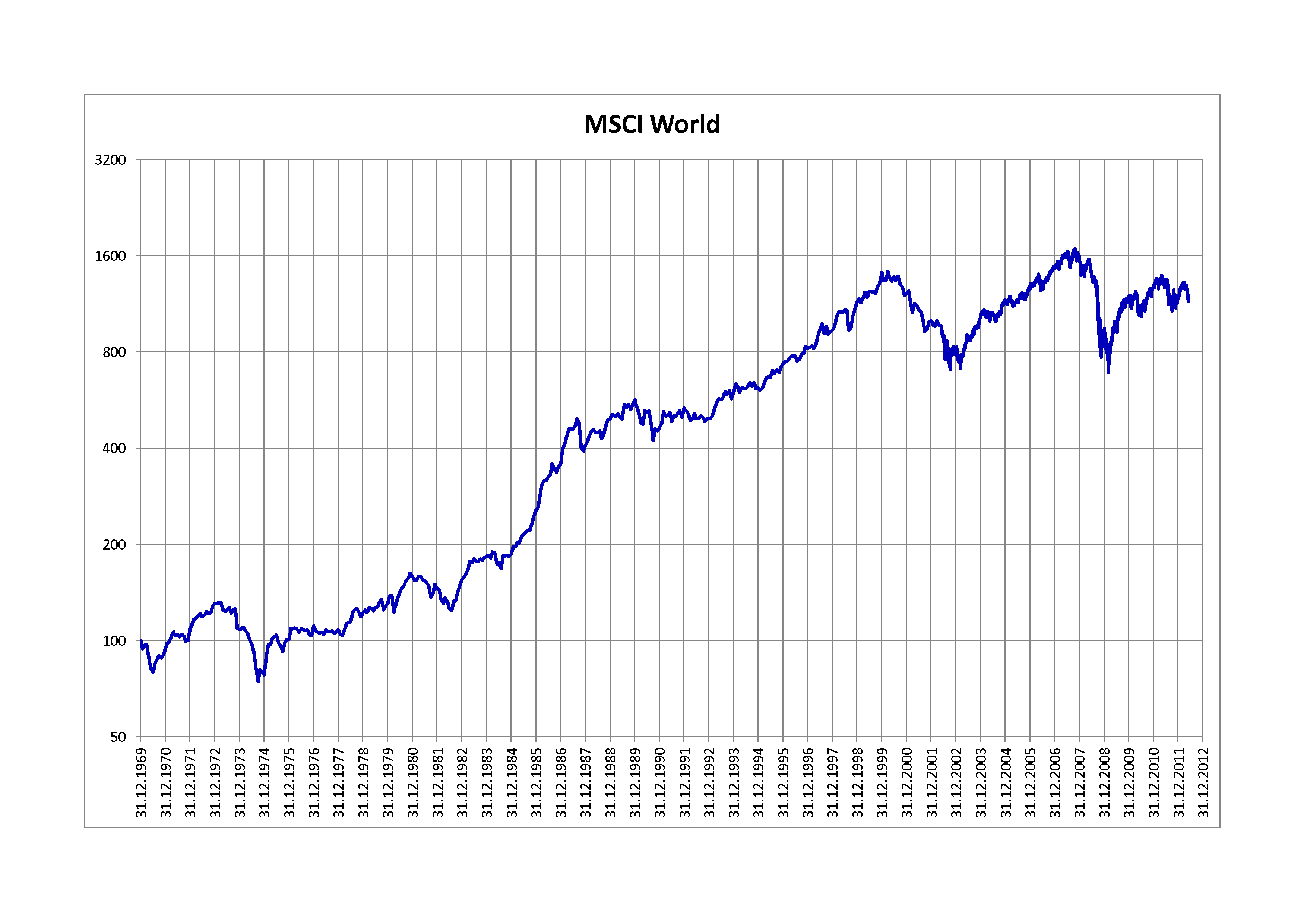 MSCI World from December 1969 to June 2012 (daily closings)